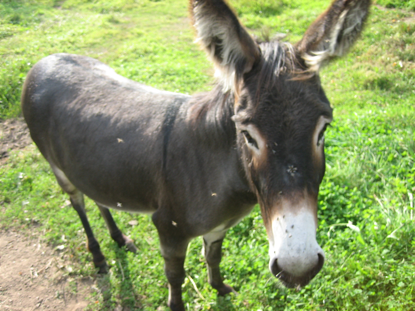 A donkey